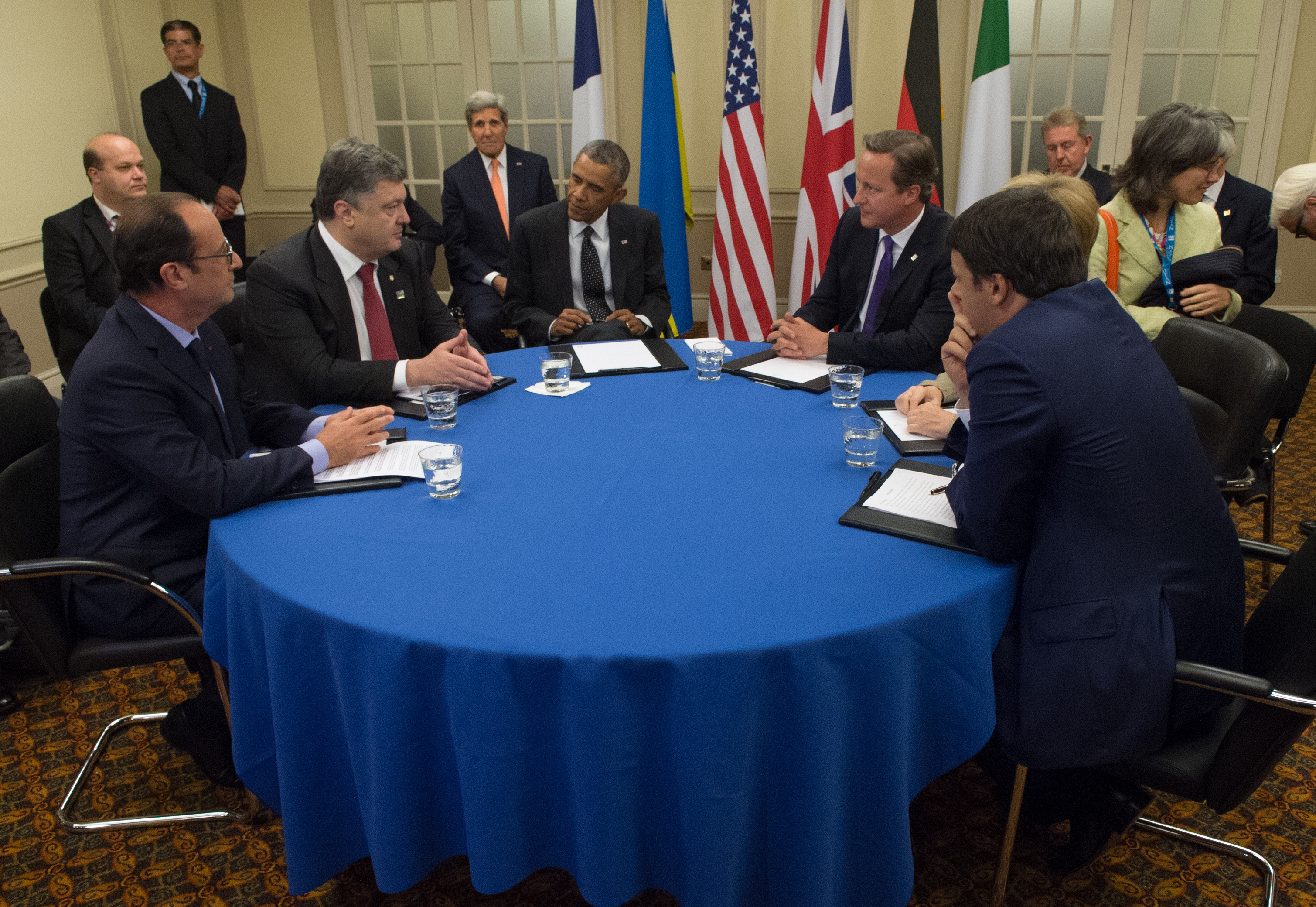 U.S. Secretary of State John Kerry listens as President Obama joins European leaders in a discussion with Ukrainian President Petro Poroshenko before the NATO Summit in Newport, Wales, on September 4, 2014. [State Department photo/ Public Domain]